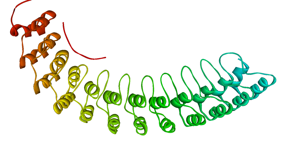 Ribbon diagram of a fragment of the membrane-binding domain of human erythrocytic ankyrin (ankyrin 1, ankyrin R). Created using Accelrys DS Visualizer Pro 1.6 and GIMP.